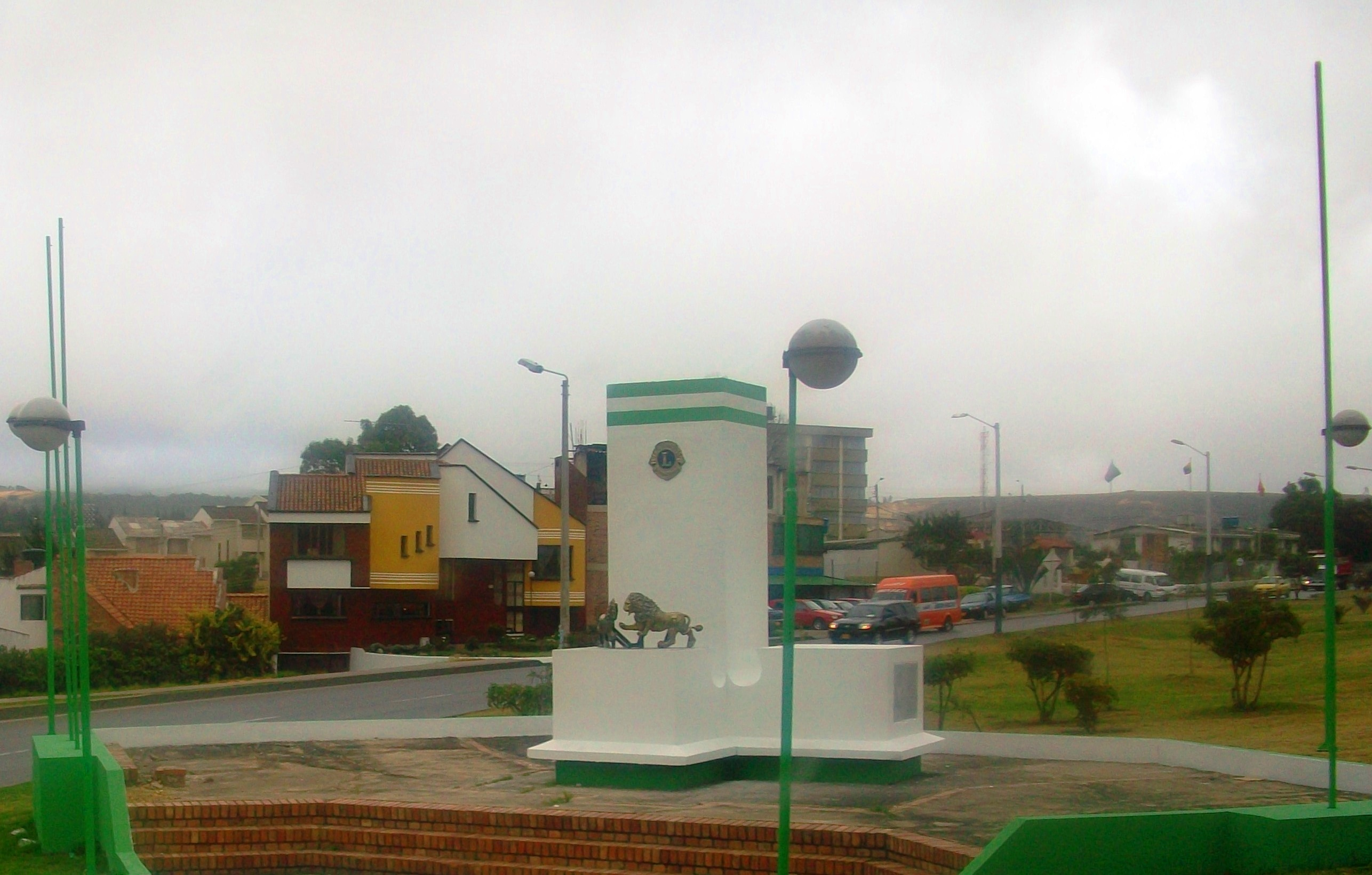 Monument in Central Avenue Tunja